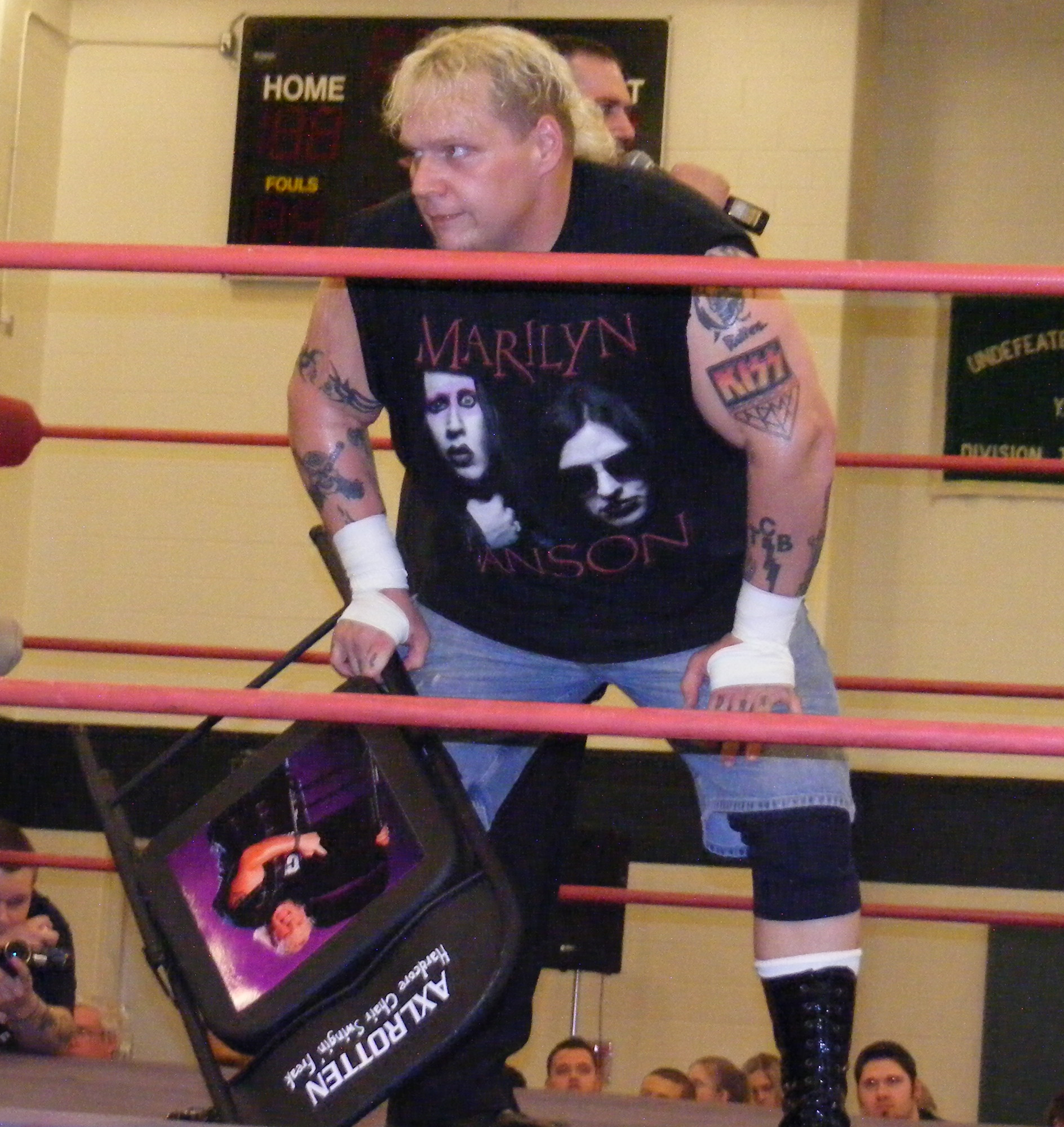 Professional wrestler Axl Rotten in 2009.